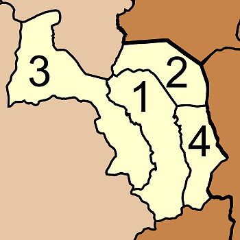 Map of Lam Thap district, Krabi province, Thailand, with the communes (tambon) numbered. Lam Thap (ลำทับ) Din Udom (ดินอุดม) Thung Saithong (ทุ่งไทรทอง) Din Daeng (ดินแดง)